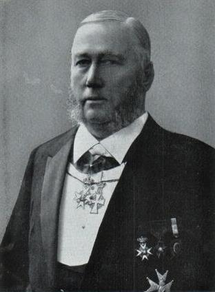 Portrait of Sven Alexander Almqvist